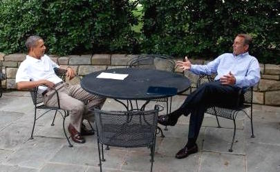 U.S. President Barack Obama meets with Speaker of the House John Boehner during the debt ceiling increase negotiations. The official White House caption says "President Barack Obama meets with Speaker of the House John Boehner on the patio near the Oval Office, Sunday, July 3, 2011. (Official White House Photo by Pete Souza"